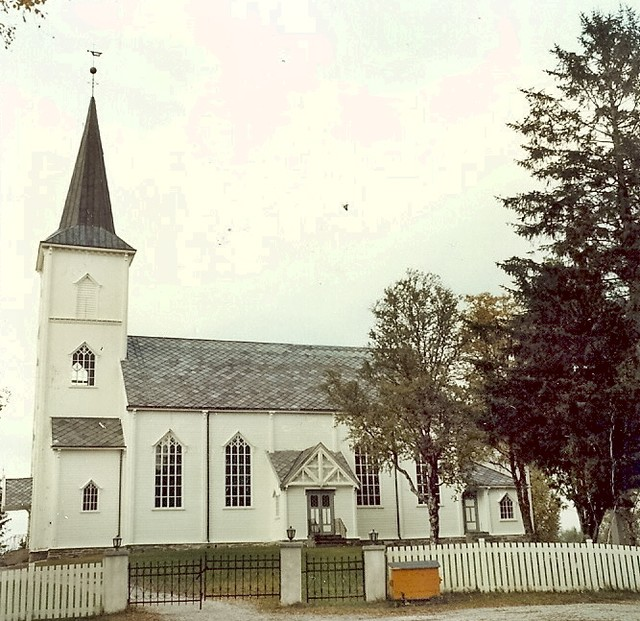 Church of Røsvik in Sørfold